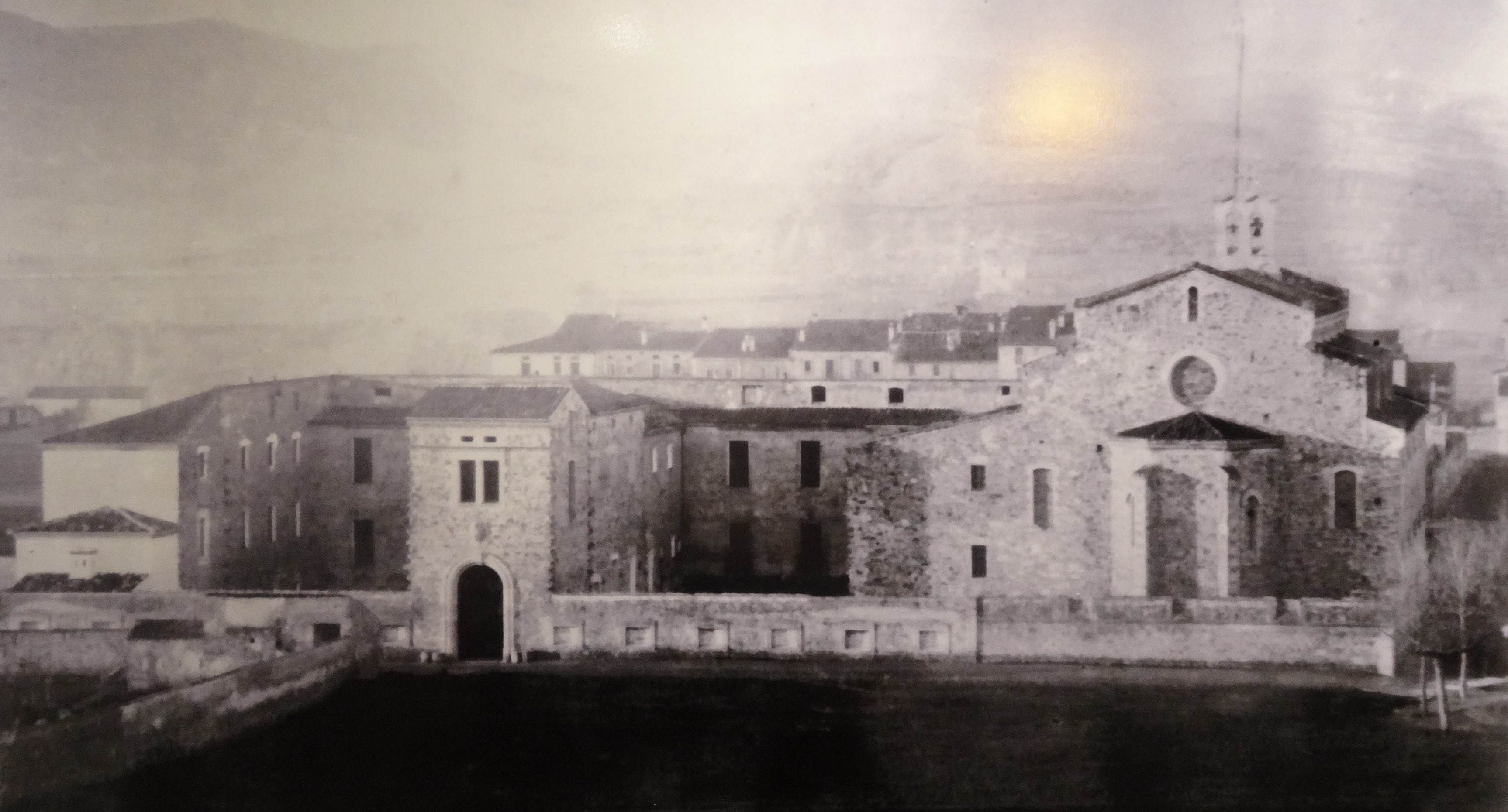 Hospital of Igualada in year 1881 (formerly a convent). At the right, the church.